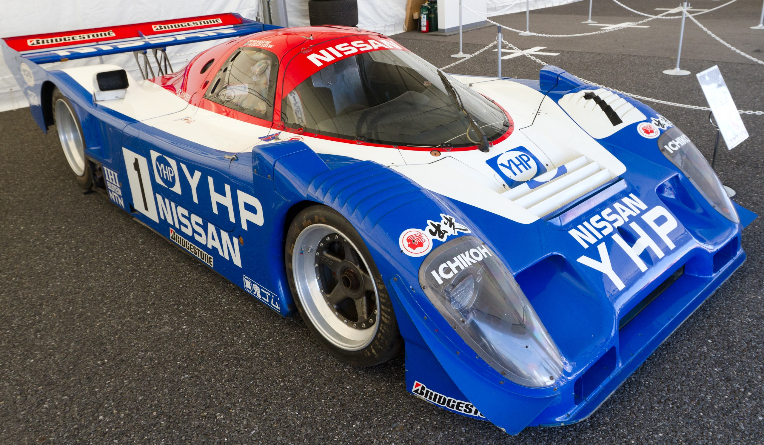 Motorsport Japan 2011: Nissan R90CP